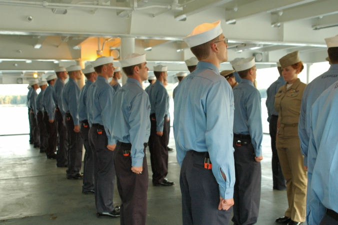 Regimental Preparatory Training (RPT) onboard the TS STATE OF MAINE